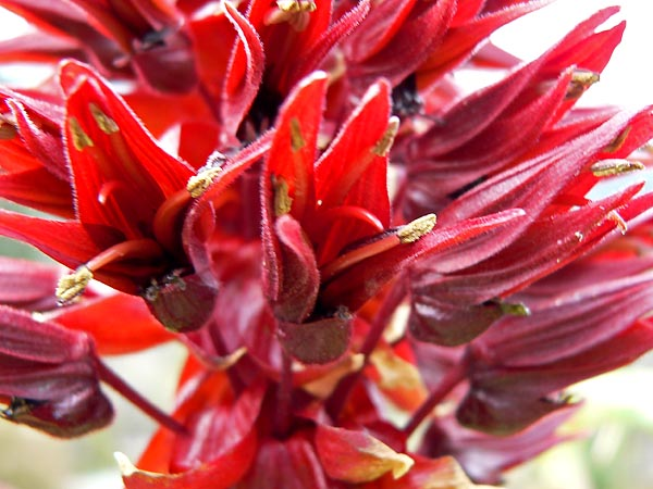 Photo of Melianthus major at the University of California Botanical Garden